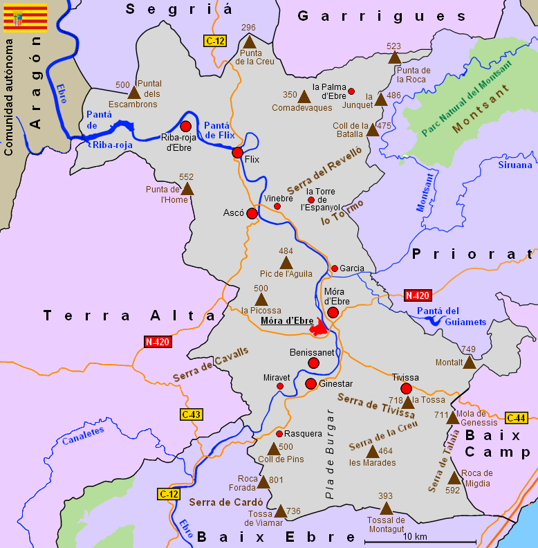 Map of the comarca Ribera d’Ebre, Catalonia, Spain